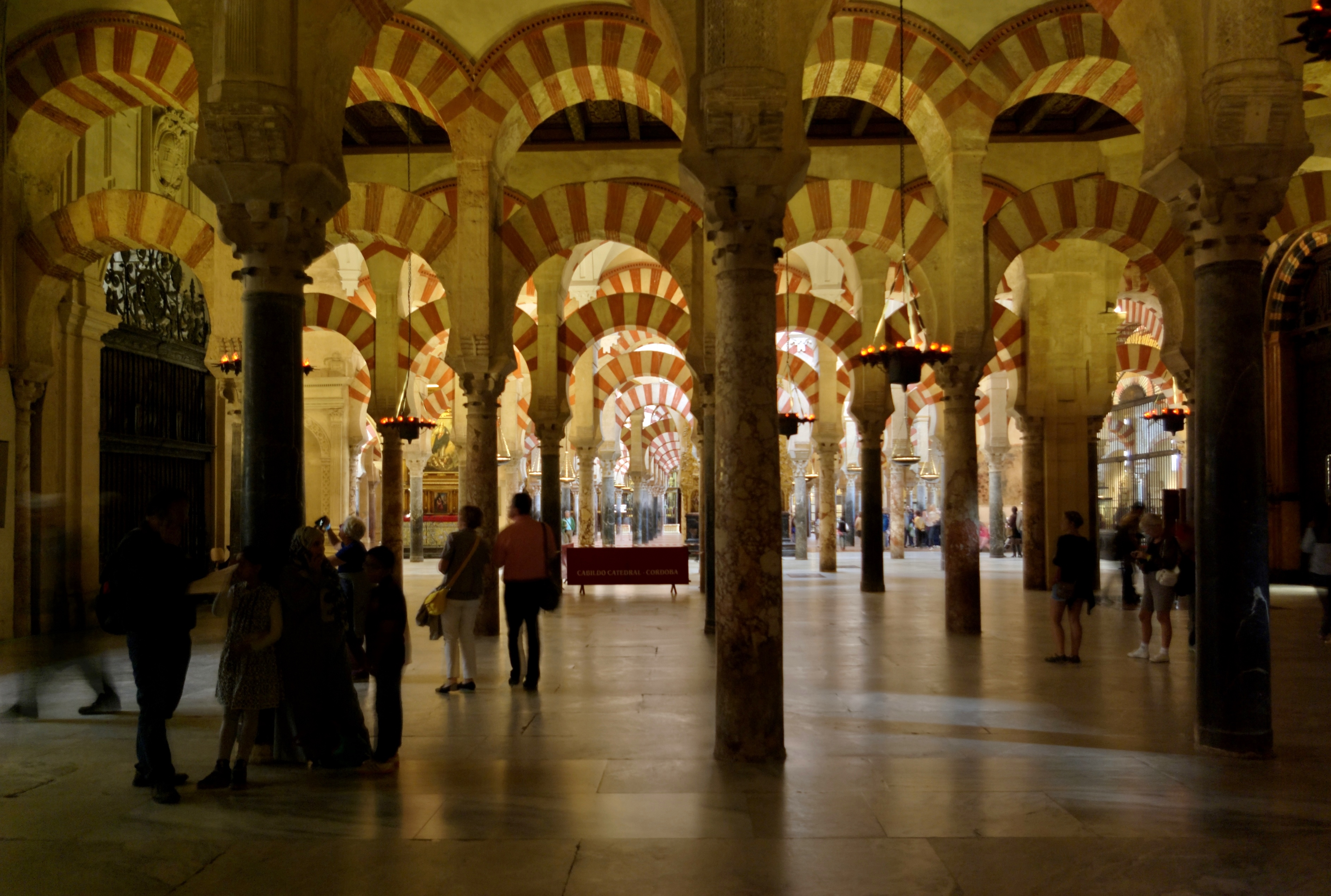 Spain, Cordoba, Mosque-Cathedral